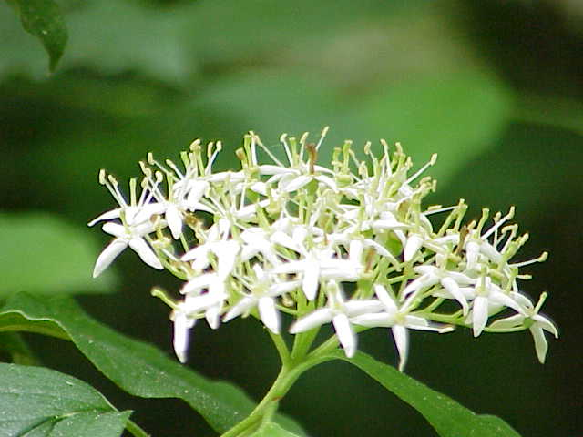 Species: Cornus sanguinea Family: Cornaceae Image No. 3